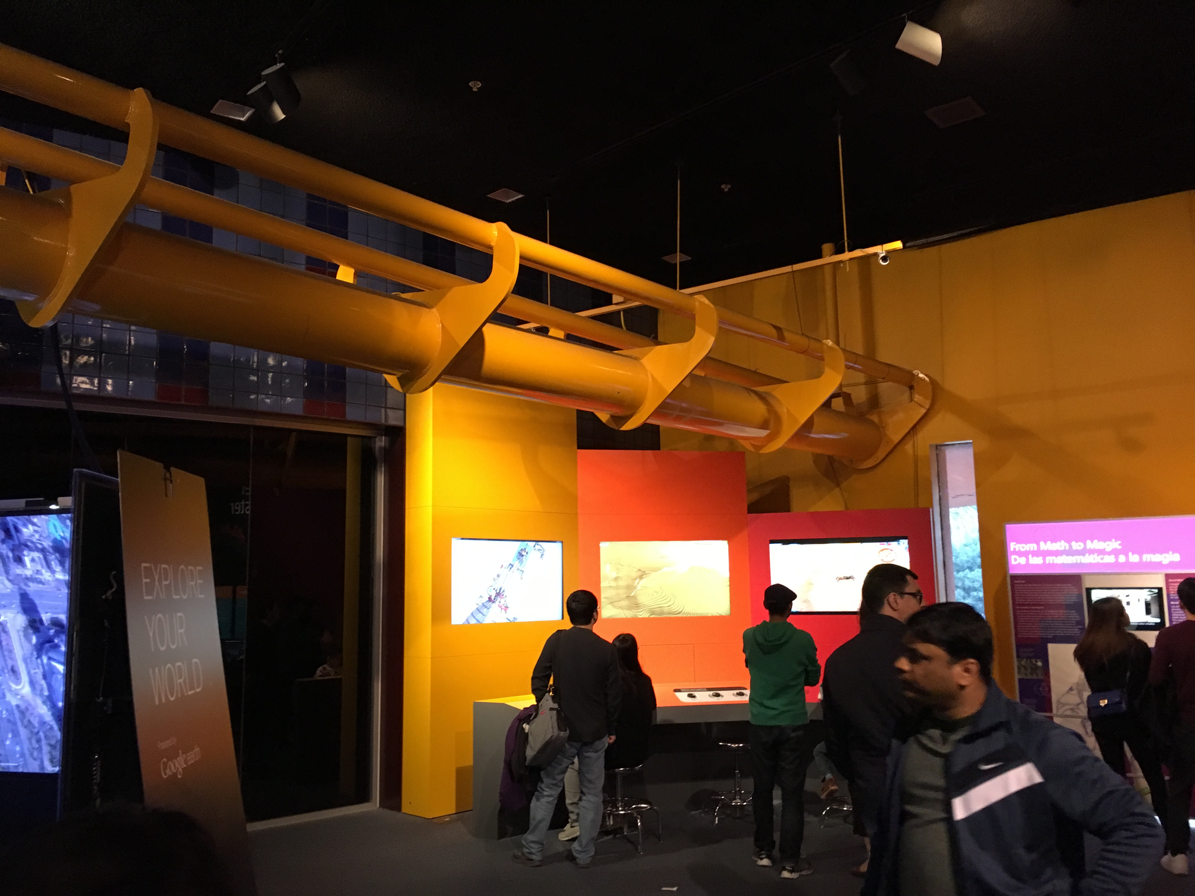 The Tech Museum of Innovation